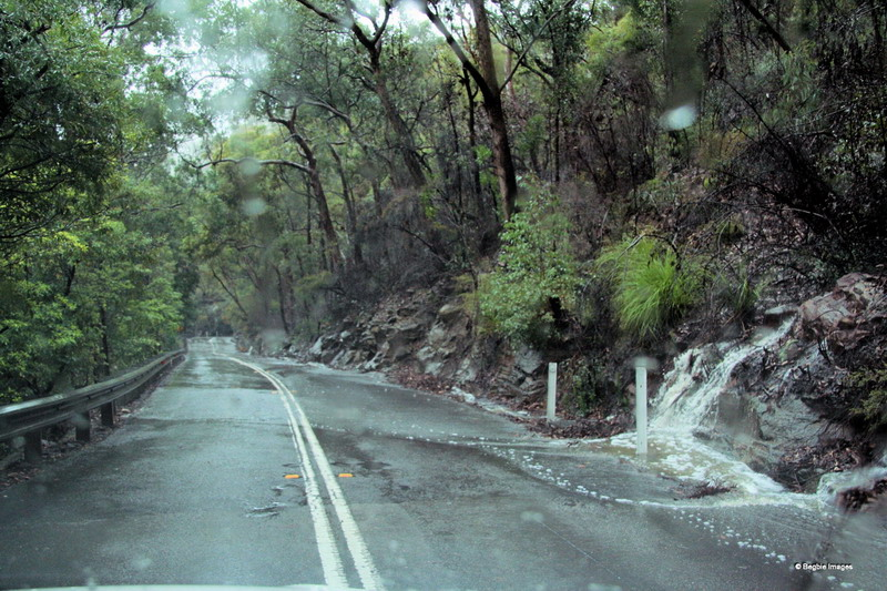 Wet NSW Australia